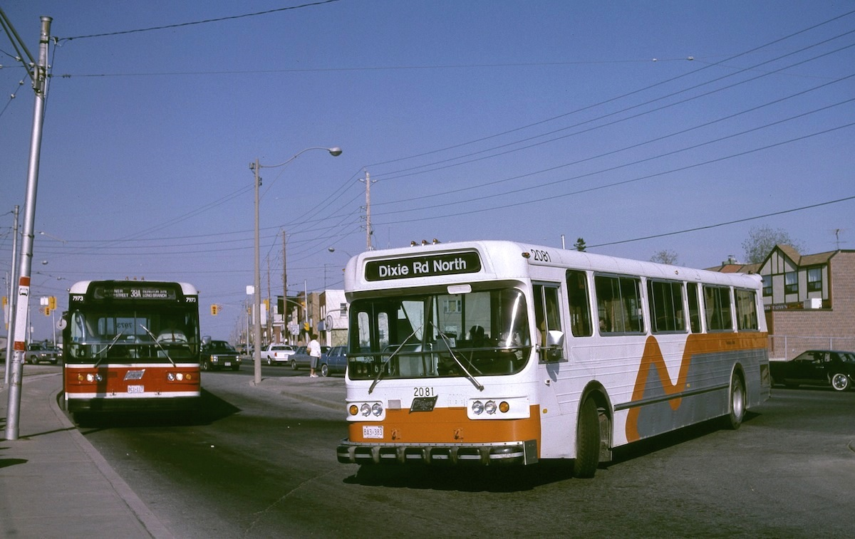 Two Flyer D800 buses at Long Branch loop in southwestern Toronto in 1987. On the left is TTC bus 7973 (built in 1975), laying over on route 38, and arriving on the right is Mississauga Transit bus 2081 (built in 1976).